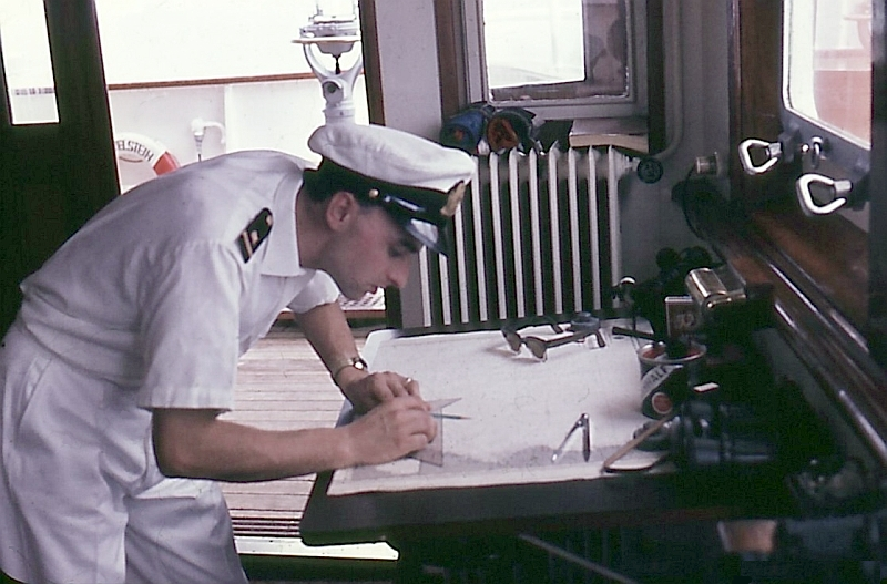 After the terrestrial bearing on the compass - see background - the location is entered in the nautical chart